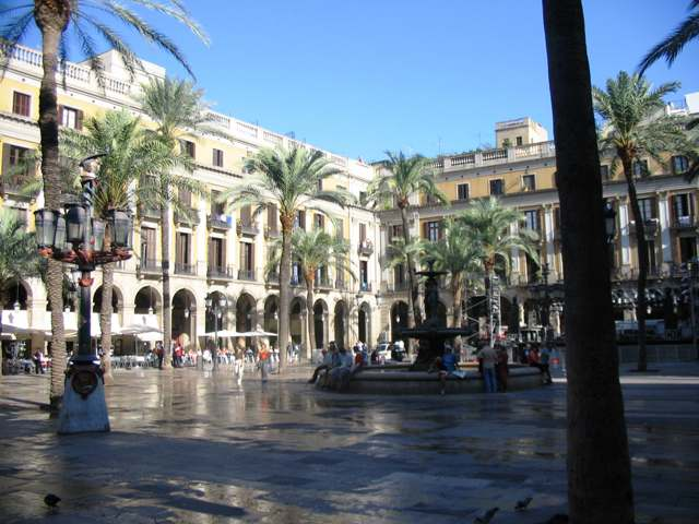 Barcelona, Plaça Reial. Not to be confused with Plaça del Rei.